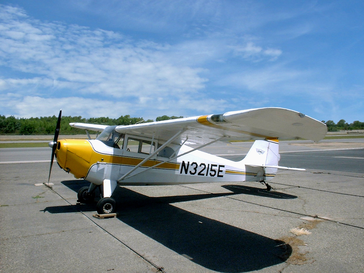 Aeronca 11AC Chief, parked at Corona Municipal Airport (AJO).